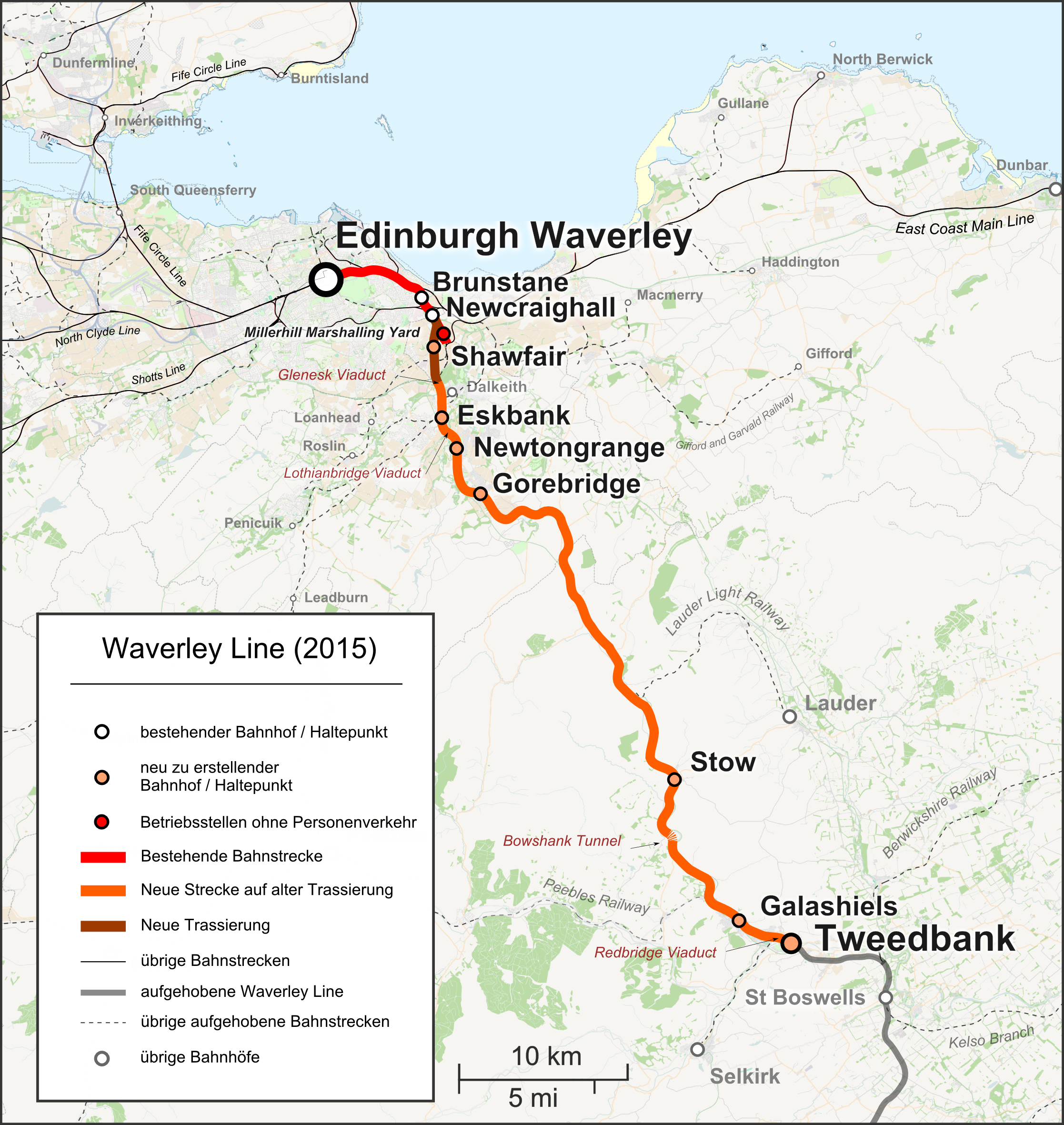 Map of the Waverley Line in Scotland, as it will be opened in September 2015.